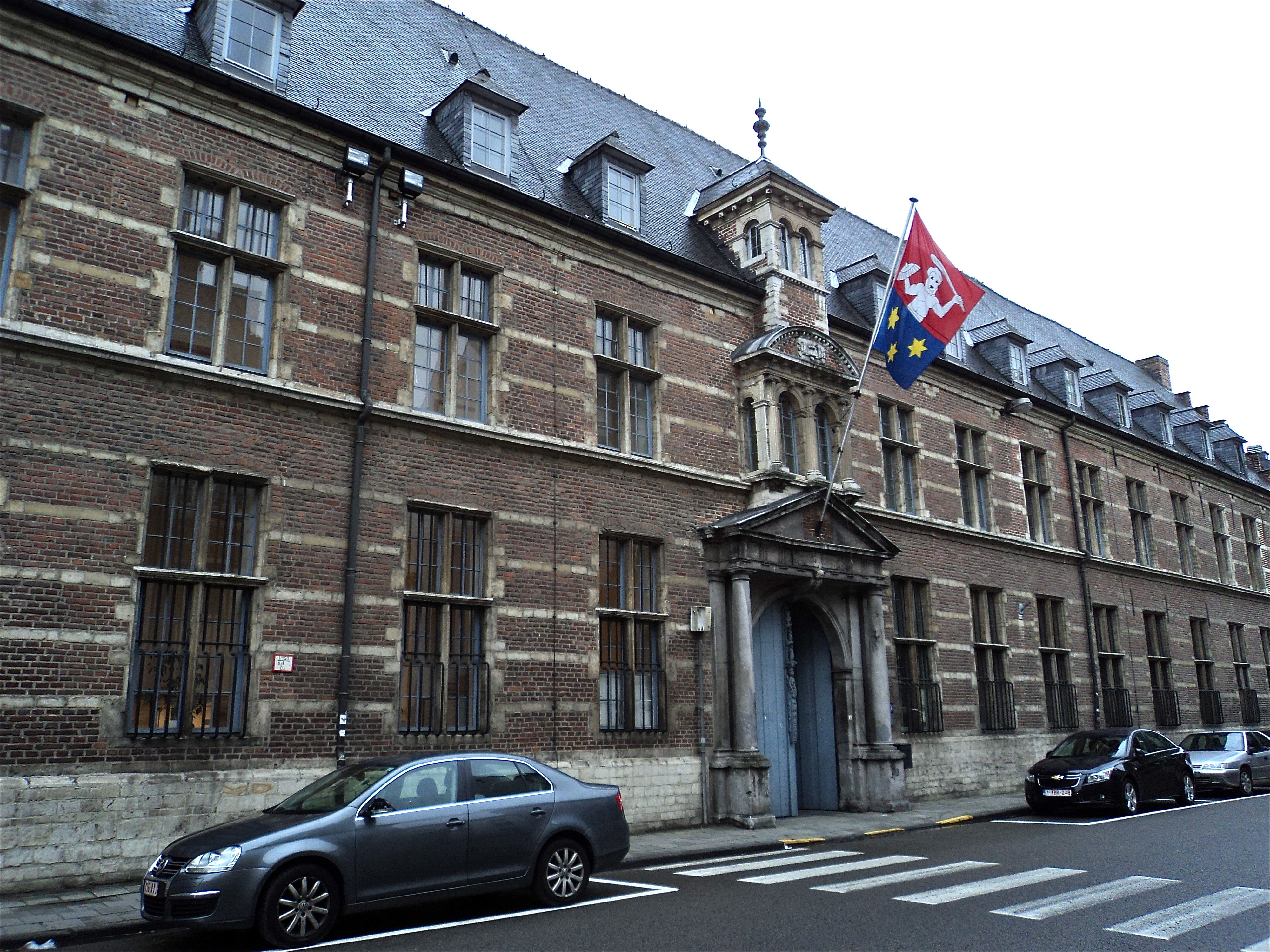 Van Dalecollege Leuven, Belgium